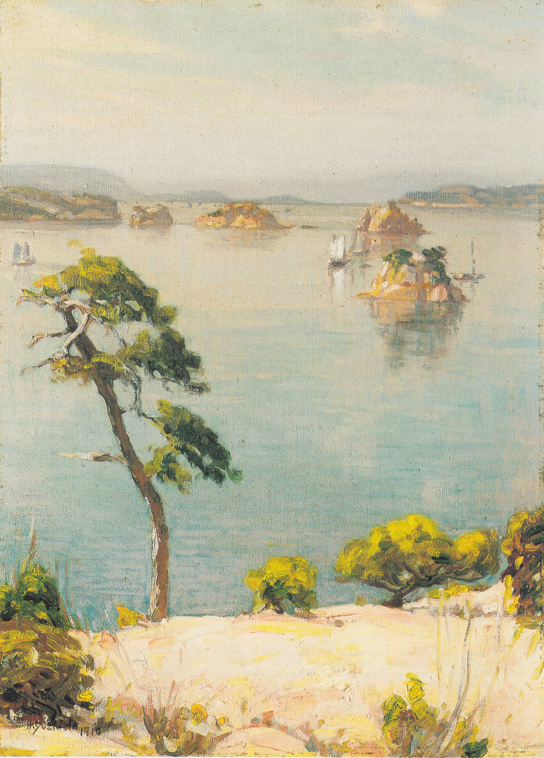 Watercolour painting by Yoshida Hiroshi